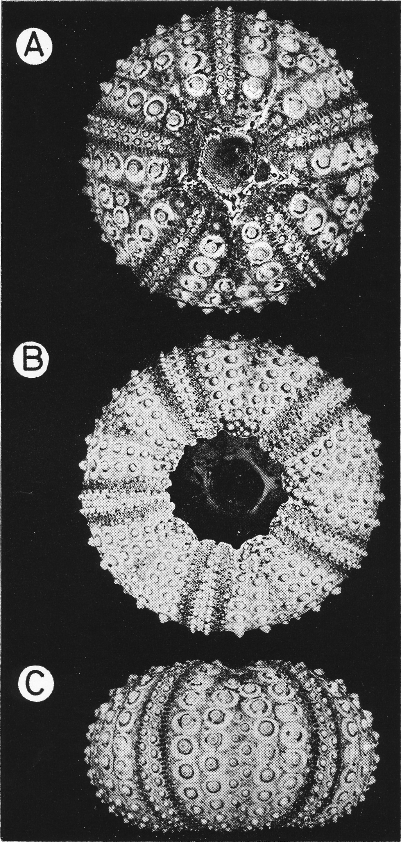 Diadema palmeri Baker, 1967 Text : Plate 1.-Diadema palmeri Baker. A: Aboral view of test; B: Oral view; C: Side viewPhoto: M. D. King. From: Two New Echinoids from Northern New Zealand, including a New Species of DiademaTransactions of the Royal Society of New Zealand : Zoology, Volume 8, Issue 23, 26 May 1967